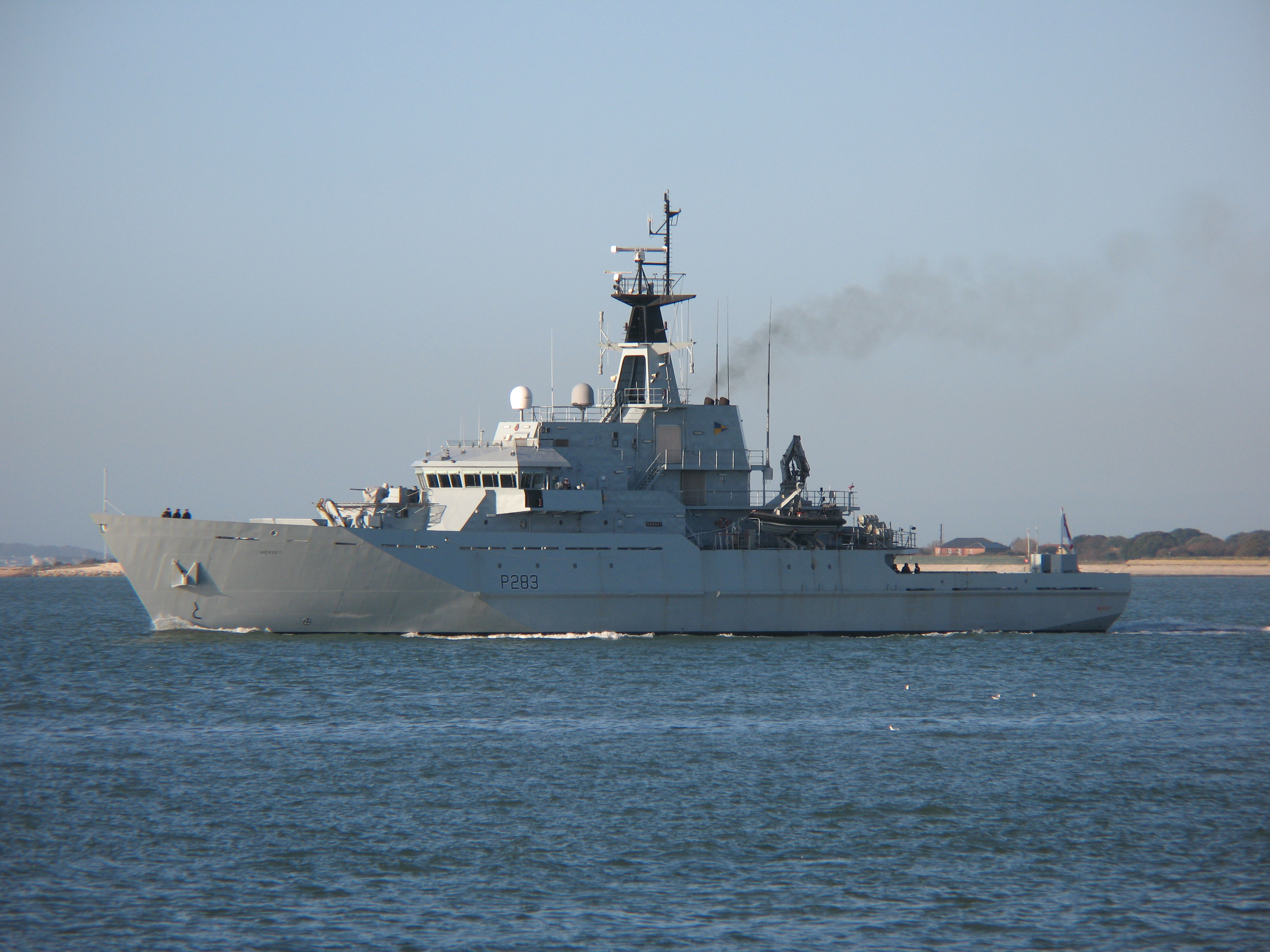 HMS Mersey, a River class fisheries protection patrol vessel of the Royal Navy departing Portsmouth Naval Base, UK, on 12th November 2008. Image uploaded by me, George.Hutchinson, from a photograph taken and supplied by Brian Burnell. The photograph should be attributed to Brian Burnell.